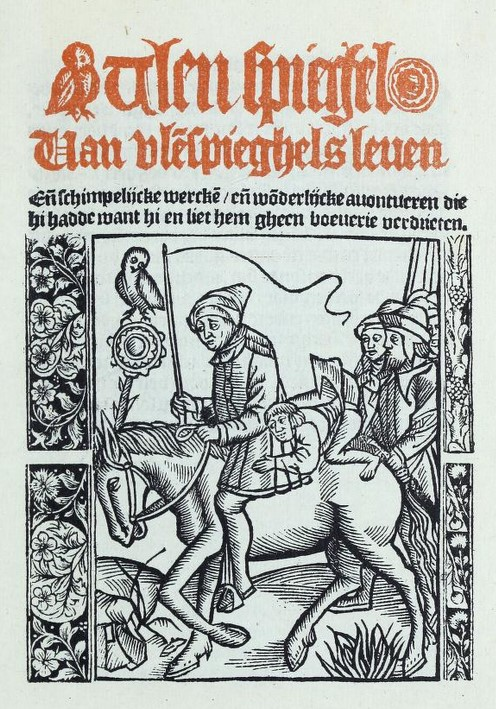 Frontispiece of Ulenspieghel published by Michiel Hillen van Hoochstraten in Antwerp c. 1519